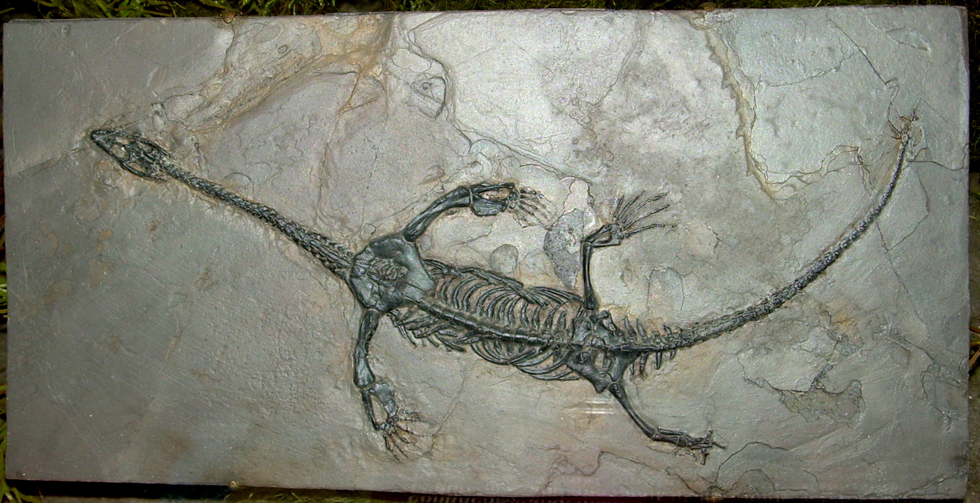 Photograph of a fossil cast of a Keichousaurus hui skeleton taken at the North American Museum of Ancient Life.